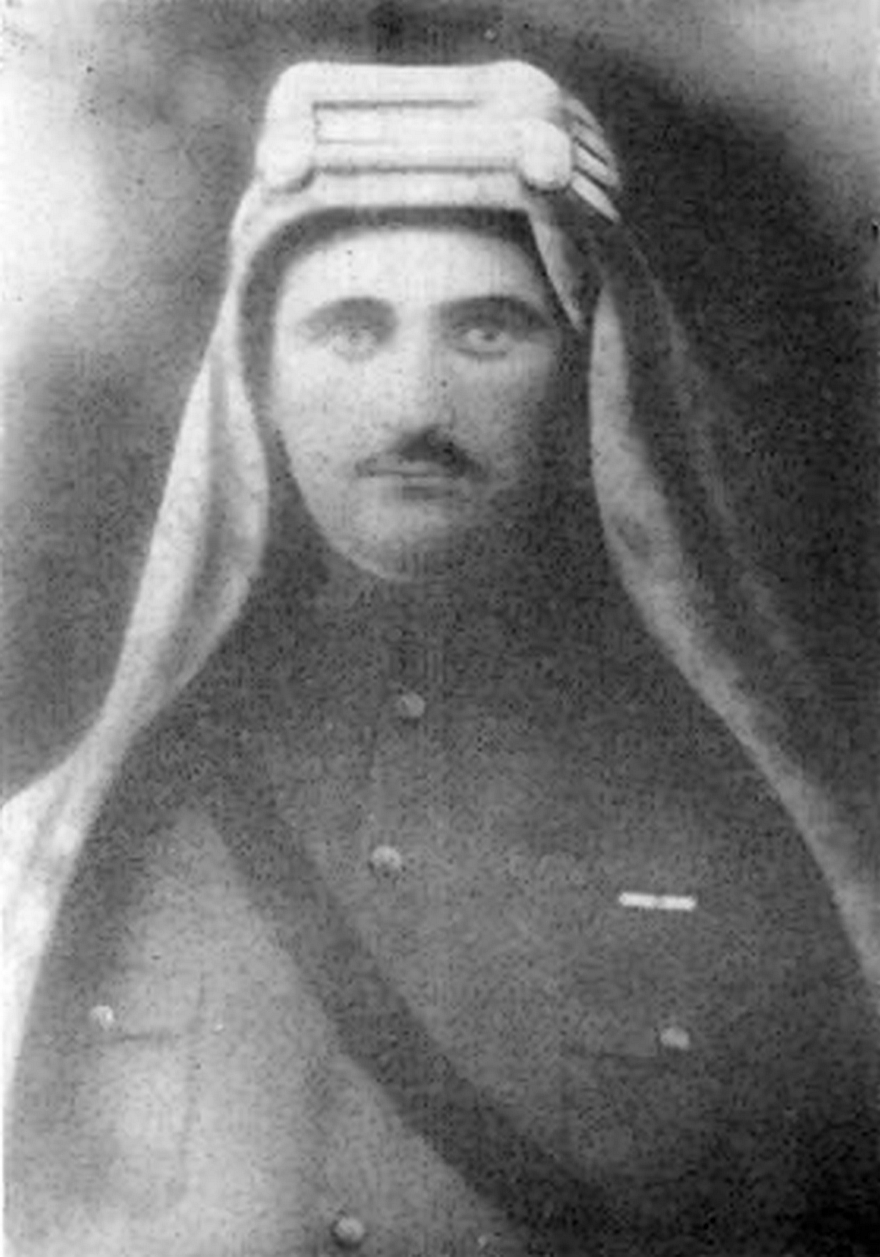 Historic photo of Sarkis Torossian in public domain according to Turkish law. Torossian as commander of Arab forces in Damascus during World War I